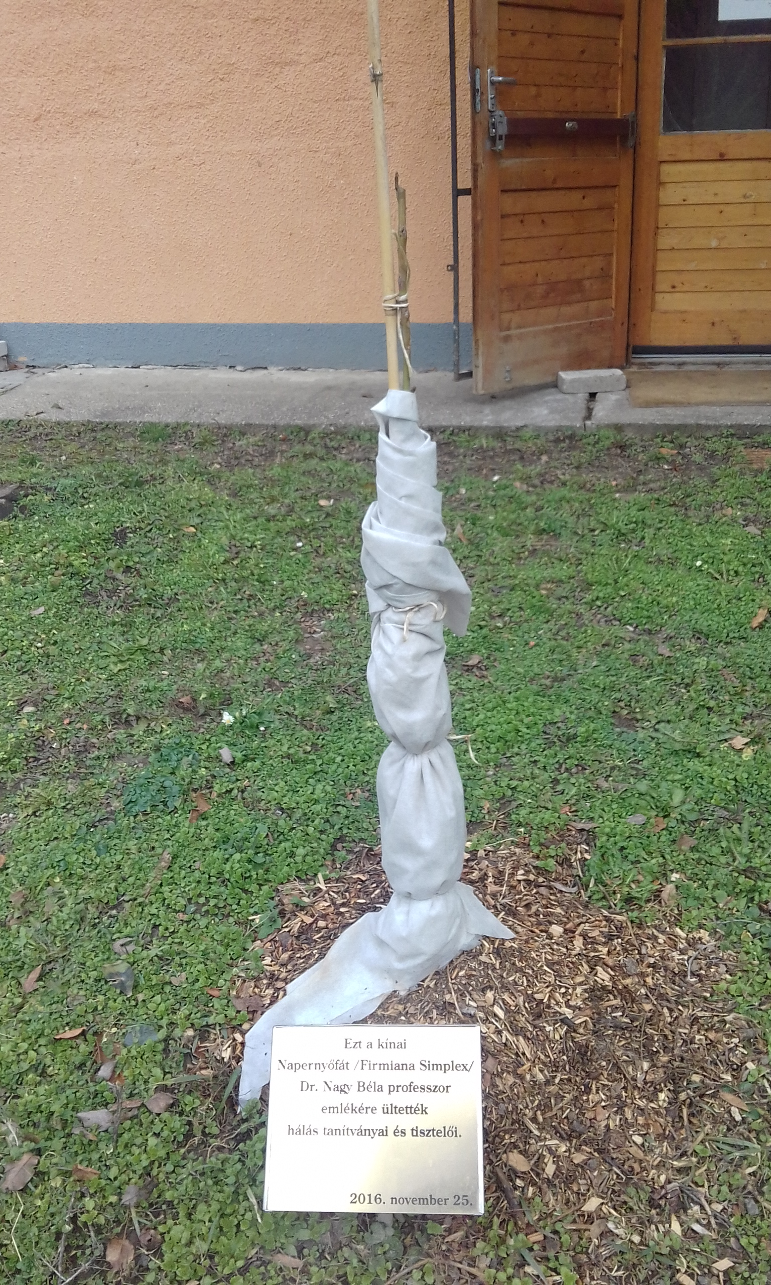 Nagy Béla emlékfája a Budai Arborétumban